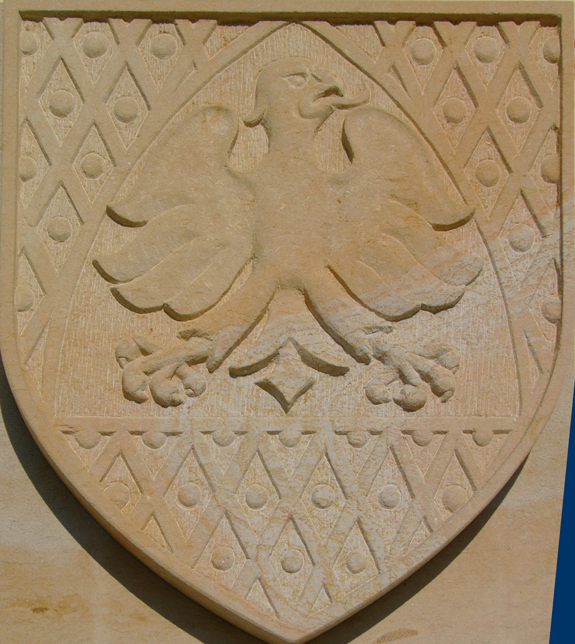 Old coat of arms of town Uničov (Czech Republic).